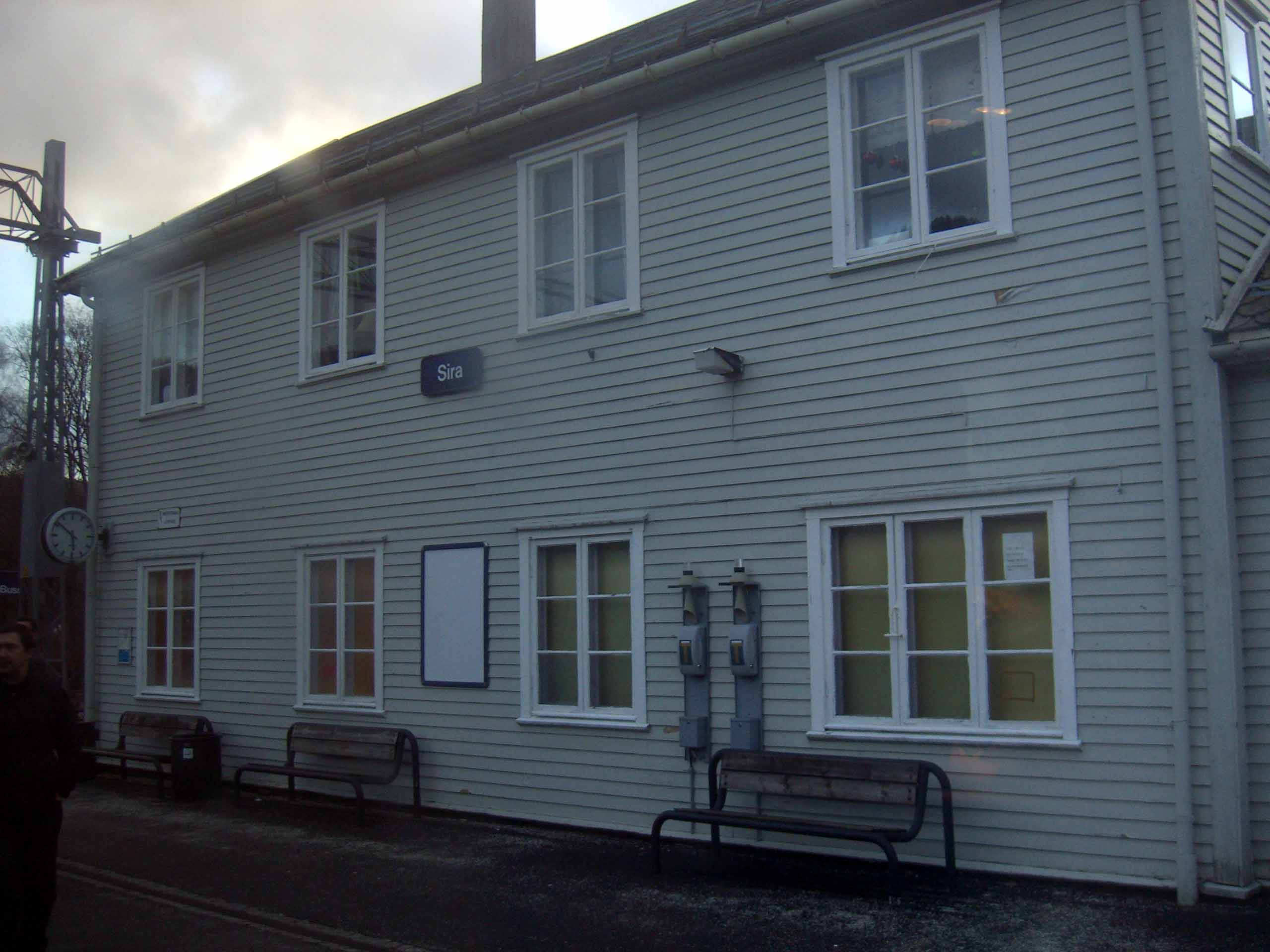 A journey from Kristiansand to Stavanger station by station